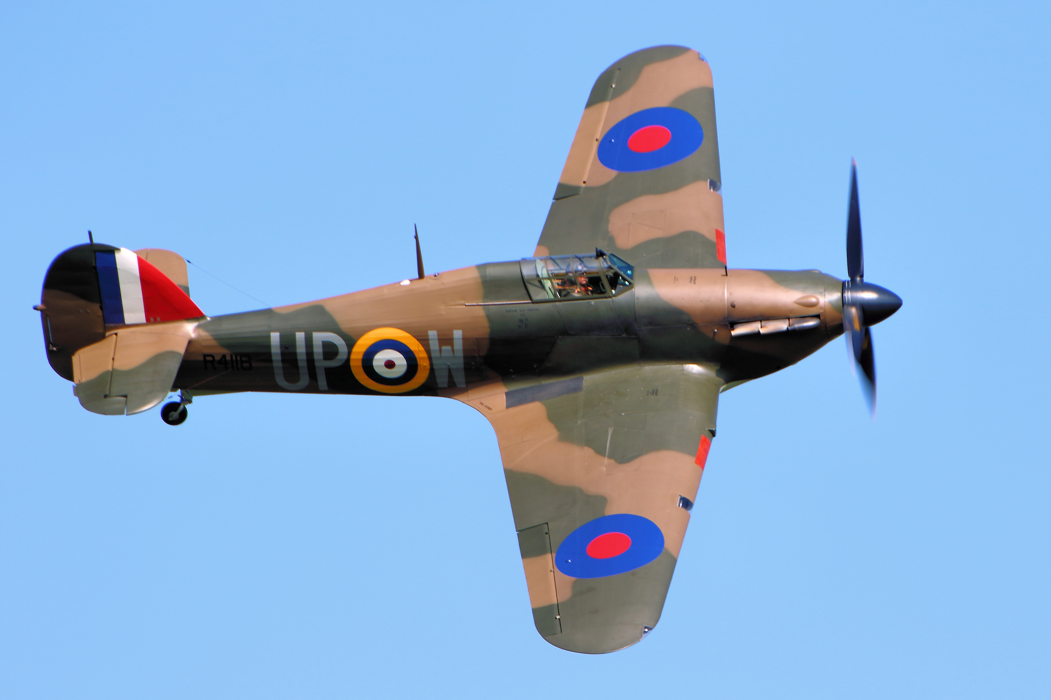 Hawker Hurricane - Shuttleworth Season Premiere 2016